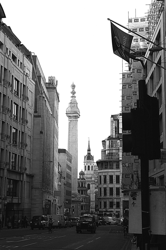 Southern end of Gracechurch Street, London EC3 Camera: Canon EOS 450D License on Flickr (2011-02-12): CC-BY-2.0 Flickr tags: Londres, London, Inglaterra, England, Reino Unido, United Kingdom, Monument, monumento